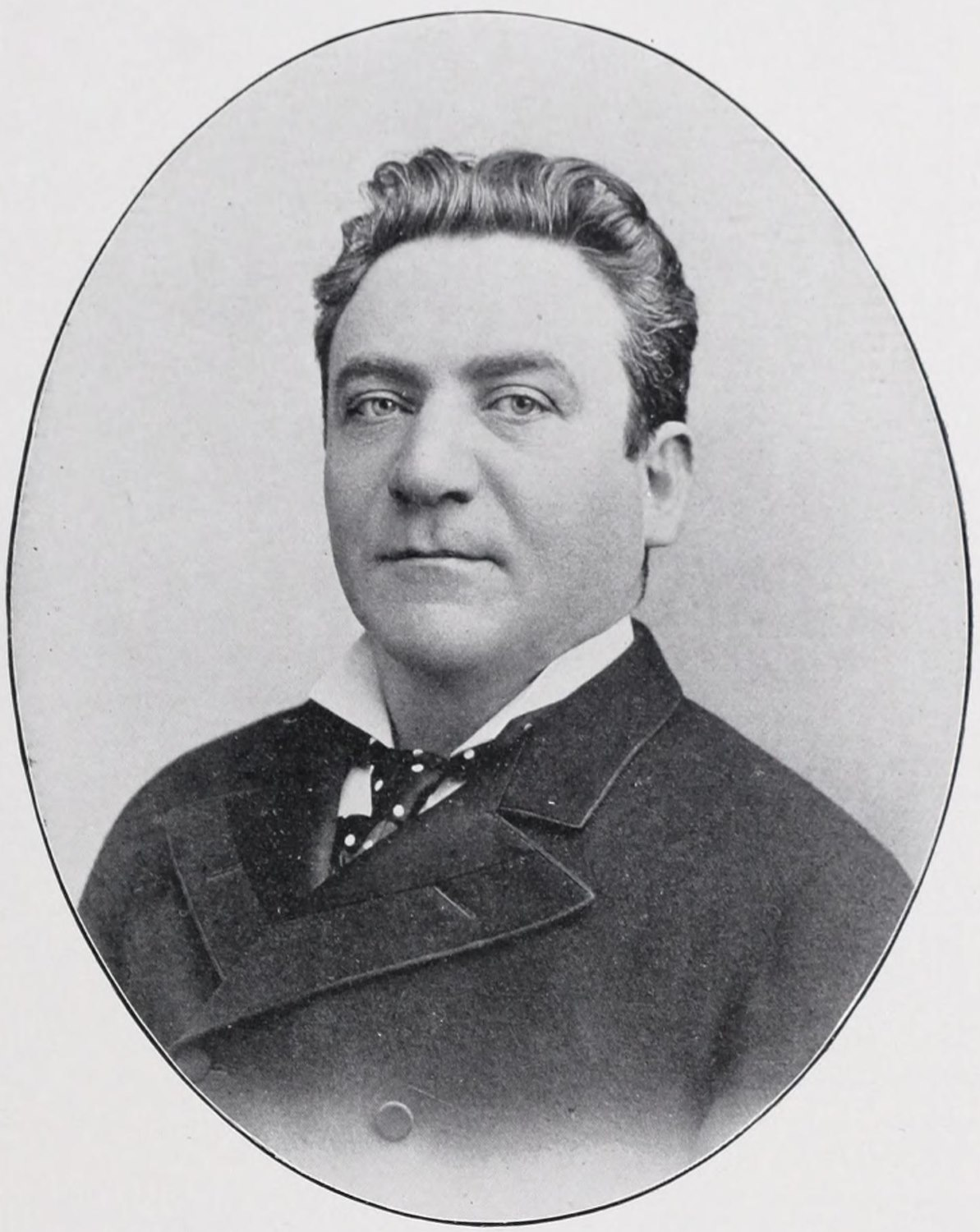 Randolph Guggenheimer (1846/1848–1907)